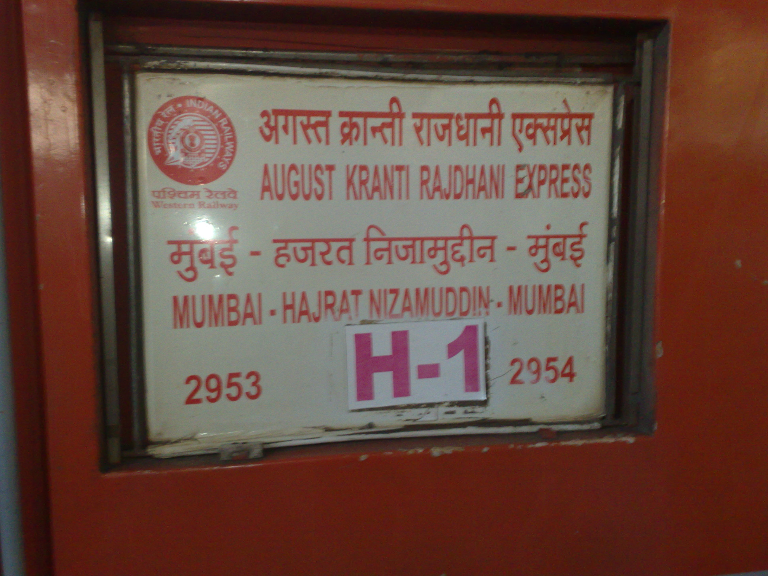 Coachboard - 12953 August Kranti Rajdhani Express